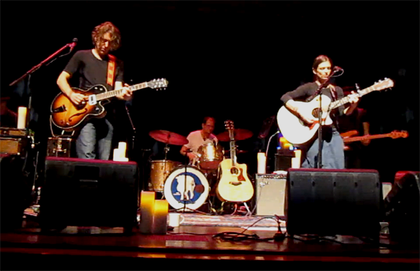 Steve Tannen and Deb Talan of the folk-pop duo The Weepies perform at Calvin College in Grand Rapids, Michigan.